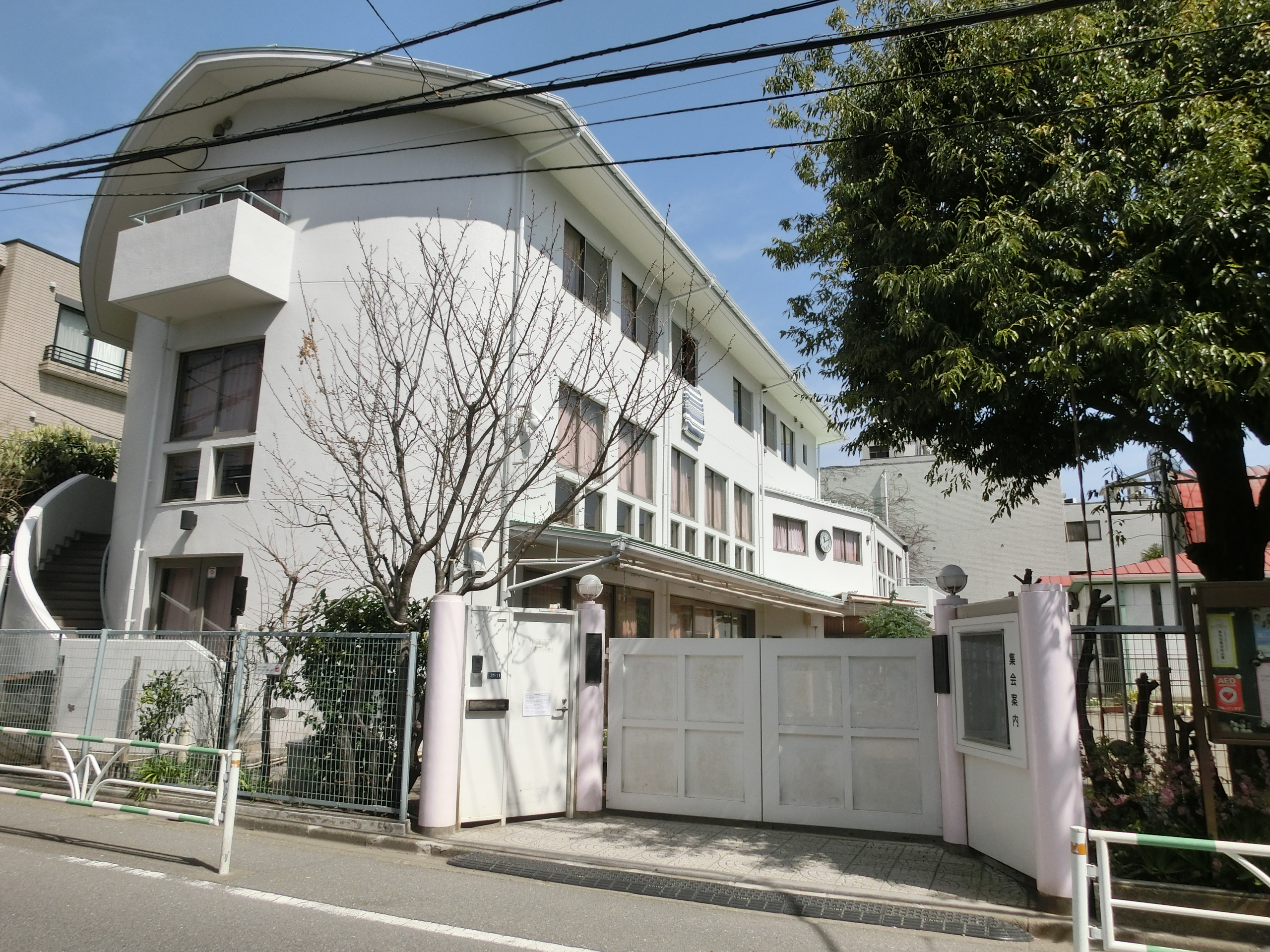 Do-kai Headquarters and Matsumura Kindergarden